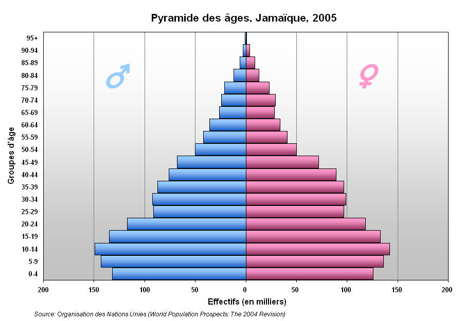 Jamaica Population pyramid, 2005